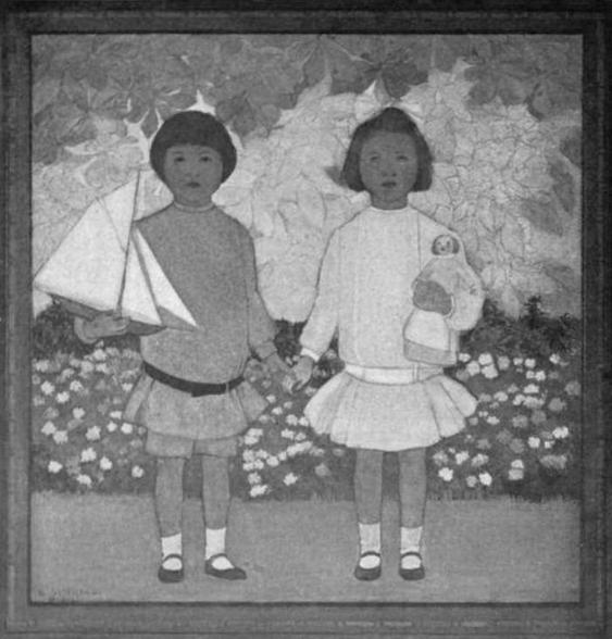 Drawing by Blanche Ostertag of 19th-century children